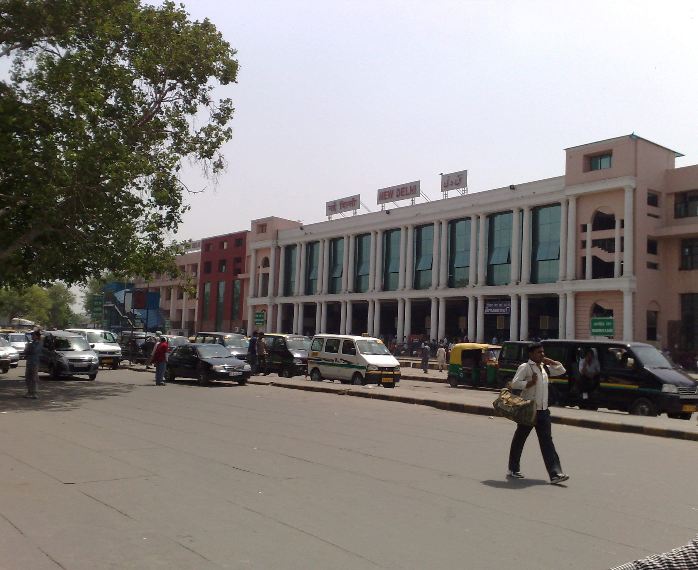 New Delhi railway station - Platform 16 entrance - 1